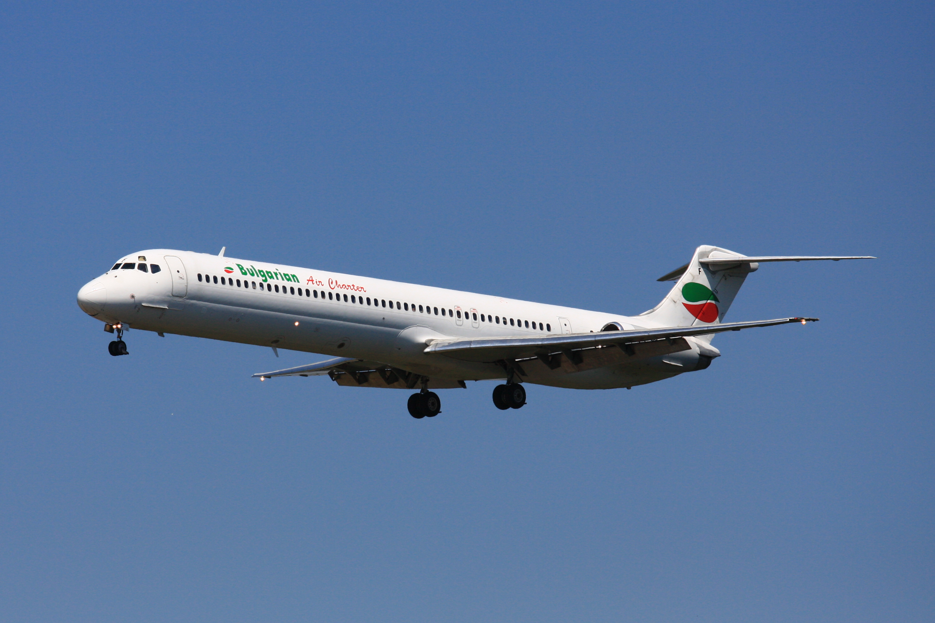 A McDonnell_Douglas_MD-82 of Bulgarian Air Charter landing at Frankfurt Airport